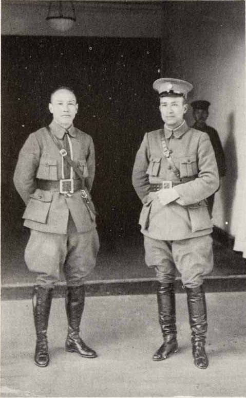 On the left is Chiang Kai-shek, later president of the Republic of China, with Muslim General Bai Chongxi on the right, wearing a hat.